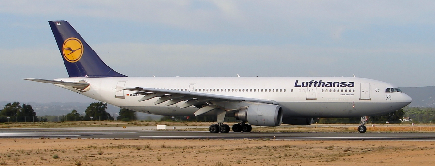 Lufthansa Airbus A300 D-AIAZ Author: Valter Jacinto